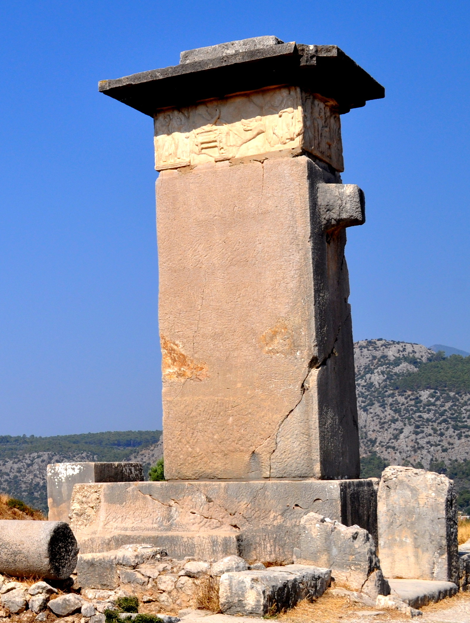 Xanthos sarcophagus and Harpy tomb